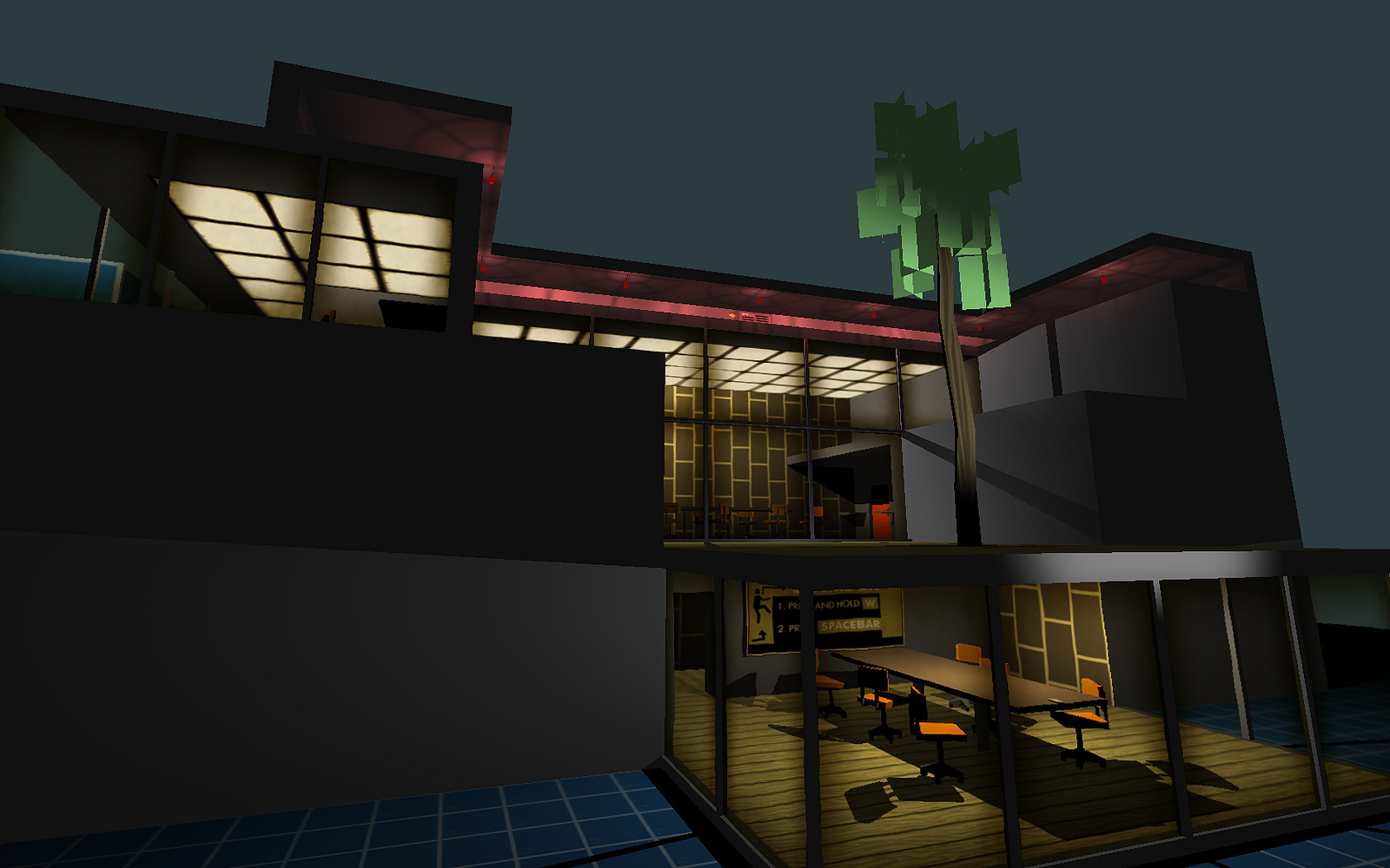 A screenshot of Quadrilateral Cowboy, taken by the developer, Brendon Chung.